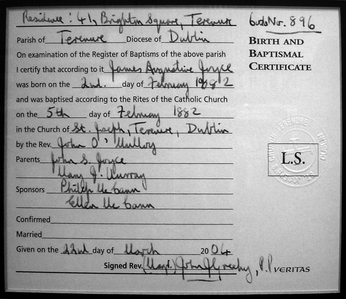 Birth and baptismal certificate for James Joyce issued by Saint Joseph's Church, Terenure, Dublin, where Joyce was baptised. The text reads: Residence: 41, Brighton Square, Terenure. Parish of Terenure. Diocese of Dublin. On examination of the Register of Baptisms of the above parish I certify that according to it James Augustine Joyce was born on the 2nd day of February 1882 and was baptised according to the Rites of the Catholic Church on the 5th day of February 1882 in the Church of St. Joseph, Terenure, Dublin by the Rev. John O'Mulloy. Parents John S. Joyce, Mary J. Murray. Sponsors Philip McCann, Ellen McCann. Given on the 22nd day of March 2004. Signed Rev. (Msgr.) John. J. Greehy, P.P.